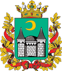 Coat of arms of Akmolinsk Province, Russian Empire